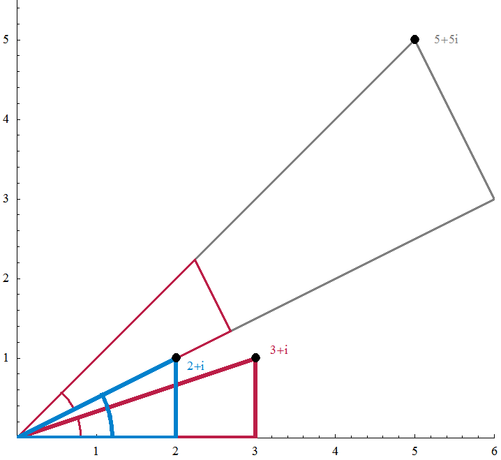 multiplication of complex numbers illustrated